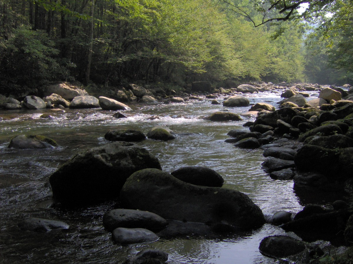 The Middle Fork of the Little Pigeon River in Greenbrier, GSMNP, in East Tennessee. This section of the river is located just downstream from its confluence with Porters Creek and Ramsey Prong.